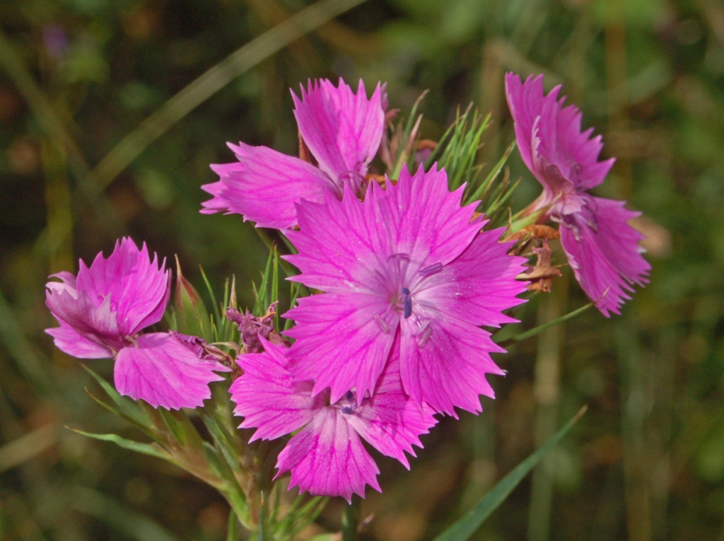 Dianthus balbisii - Gattorna, Genova, Italy